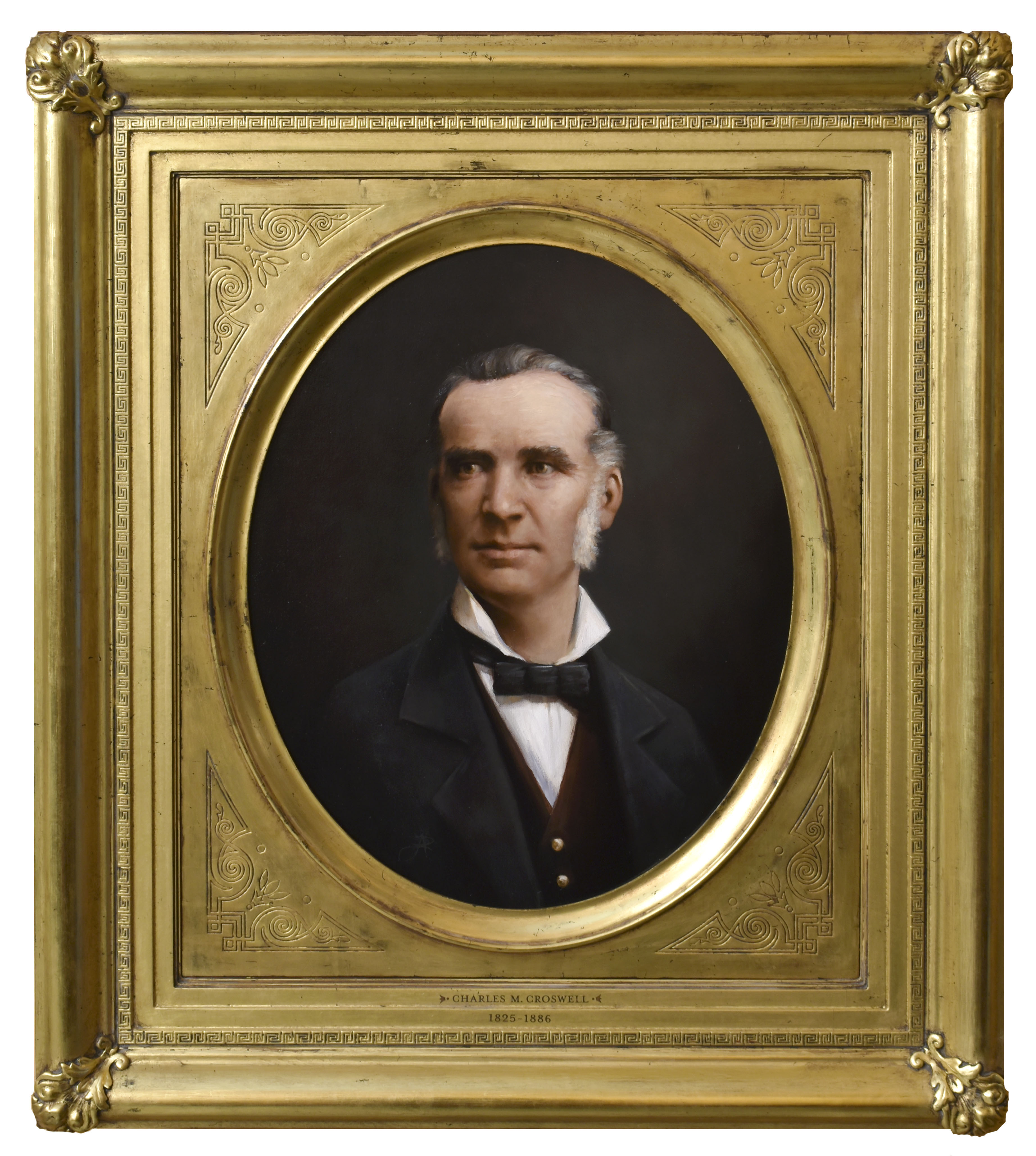 A painting of Charles Croswell the 17th Governor of the US state of Michigan from 1877 to 1881. The painting and frame were created by Joshua Adam Risner in 2017 and now hang in the Michigan State Capitol.